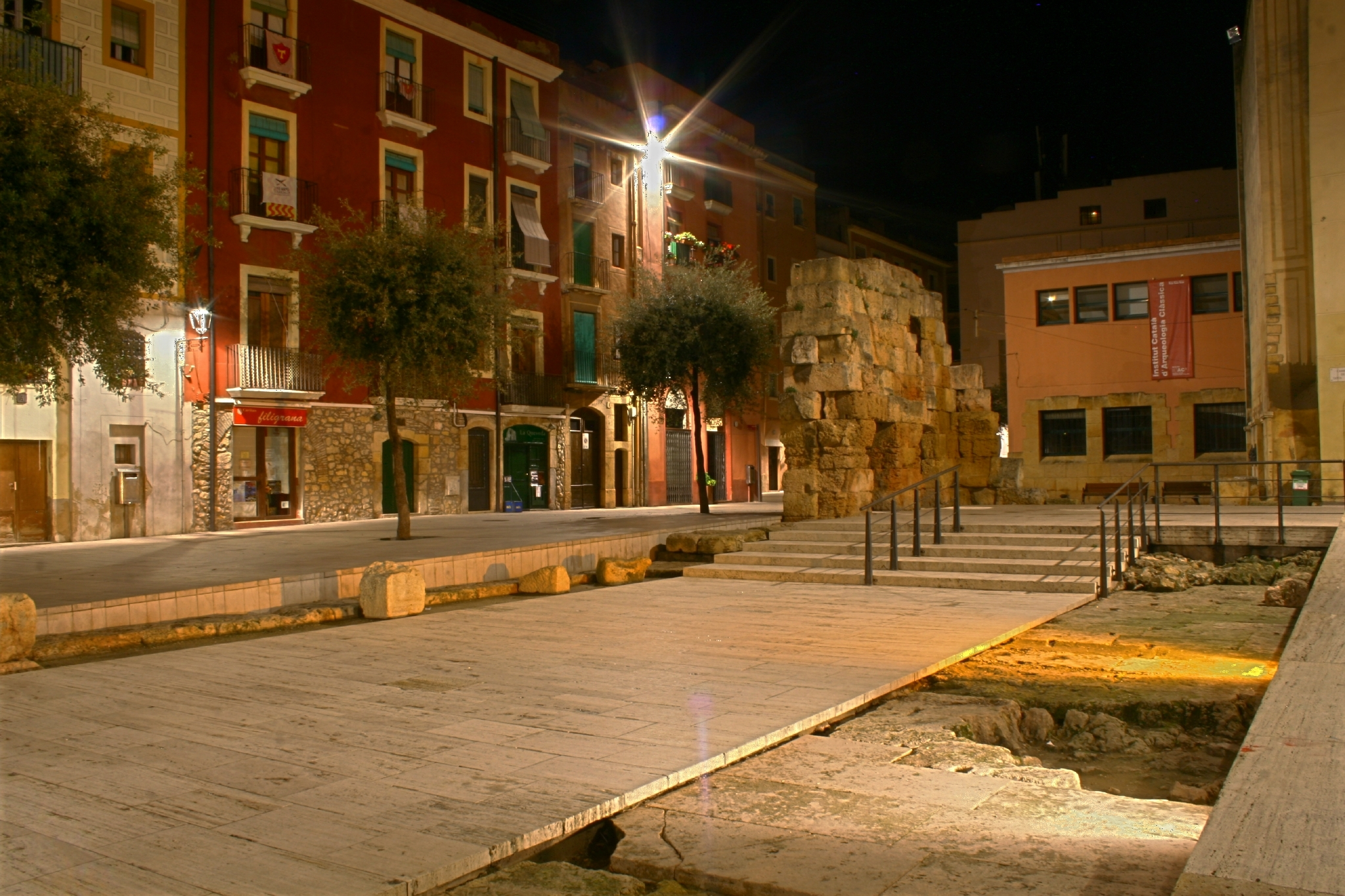 Qtpfsgui 1.9.3 tonemapping parameters: Operator: Reinhard02 Parameters: Key: 0.15 Phi: 34.28 Scales Range: 4 Lower: 79 Upper: 78 PreGamma: 0.667